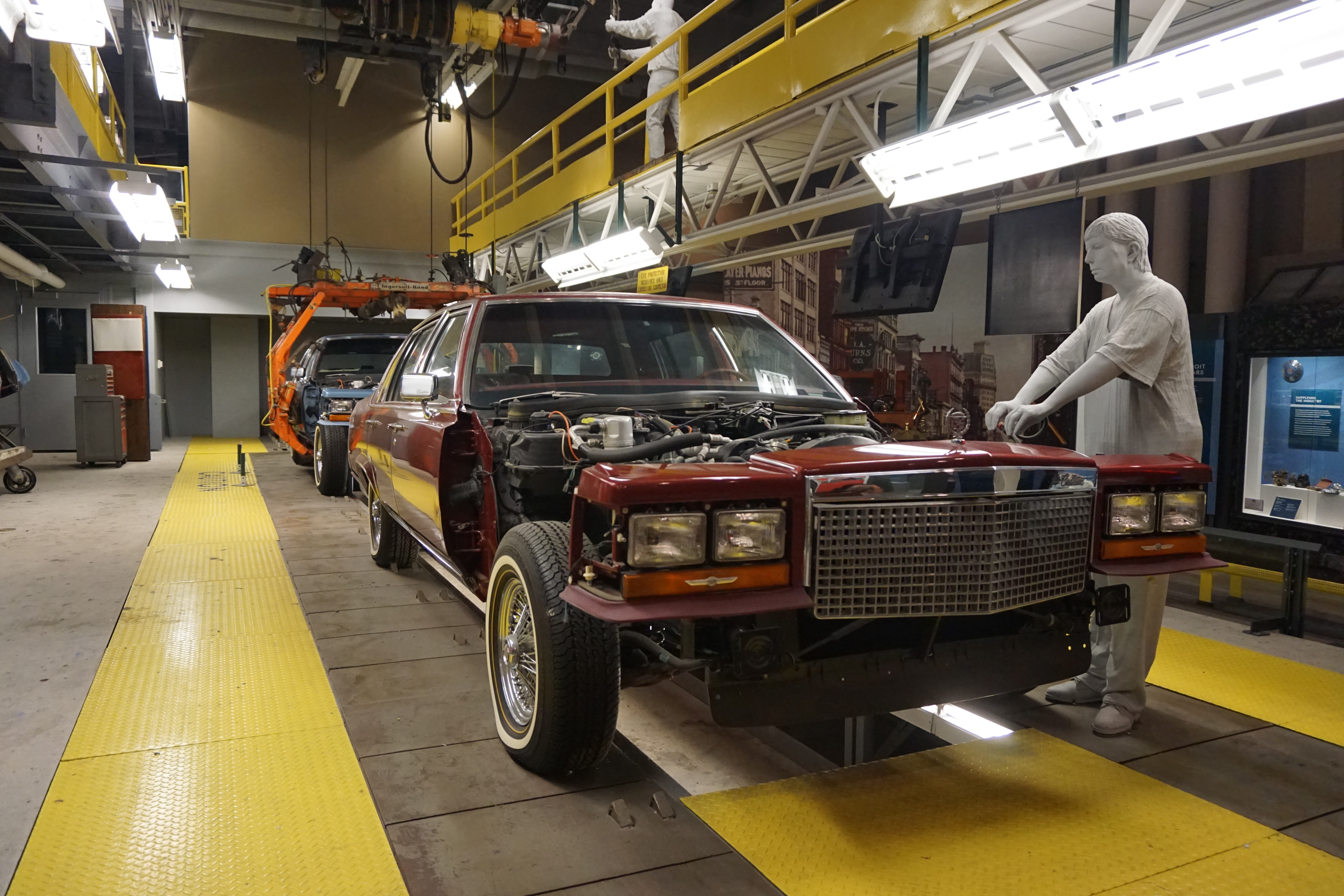 The Body Drop in the America's Motor City exhibit at the Detroit Historical Museum in Detroit, Michigan (United States).